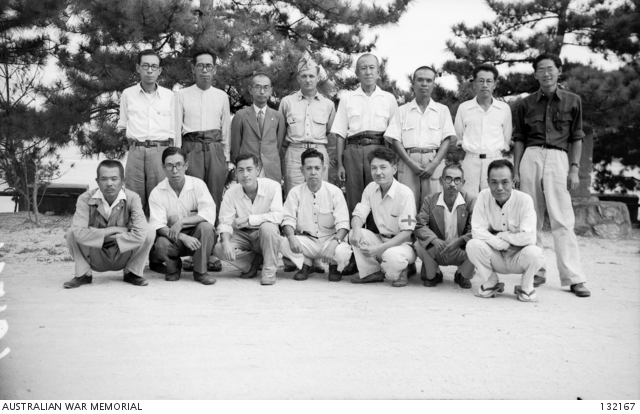 OKUNOSHIMA, JAPAN. AT THE FORMER TADAMOUI BRANCH, TOKYO 2ND ARMY ARSENAL, DURING "OPERATION LEWISITE" (TO DESTROY POISONOUS GAS) UNDER THE SUPERVISION OF THE DIRECTOR OF ENGINEERING EQUIPMENT, BCOF. LEFT TO RIGHT: BACK ROW: A. ARAKI, WAREHOUSING Y. MIYOSHI, CHEMIST Y. YONEDA, DISPOSAL CONTRACTOR MAJOR W. E. WILLIAMSON, CHEMICAL EXPERT, UNITED STATES ARMY M. YAMANAKA, ARSENAL OPERATIONS K. KAIMI, ENGINEER S. TOYOSHIMA, ADMINISTRATOR W. ASAKA, UNITED STATES CITIZEN, LANDING CRAFT TRANSPORT FRONT ROW Y. KIYOTOSHI, ARSENAL OPERATIONS H. KITOI, ENGINEER T. SHIGITO, COST ACCOUNTING M. NAKASHIMA, BUSINESS ADMINISTRATOR DR. TAKAGI, MEDICAL SUPERVISOR I. KUSAKARI, MARINE CONSTRUCTION S. TOMINAGA, TRANSPORTATION